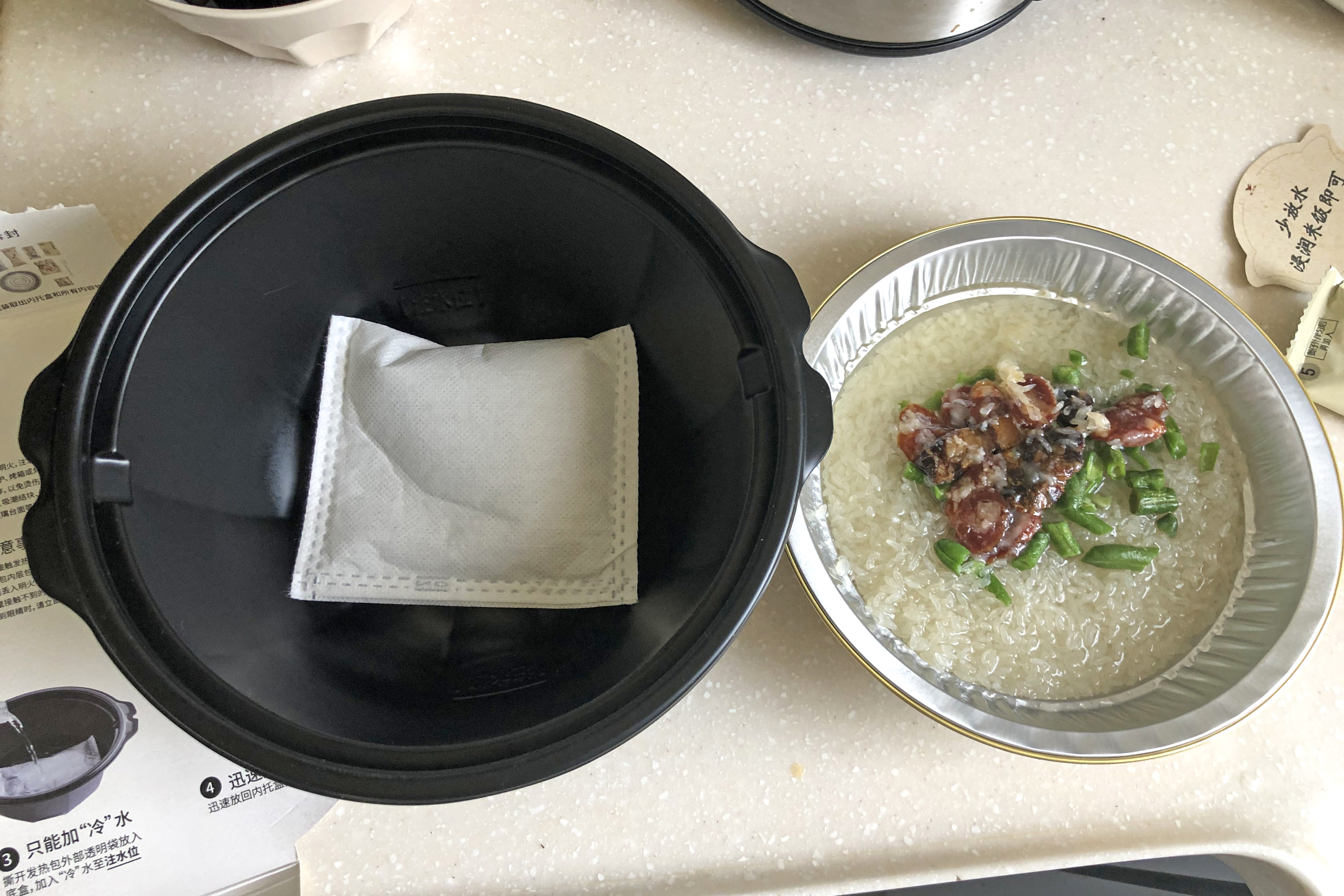 Before triggering the heater, make sure the water reach the level in the plate exactly. Then add cold water to the heater, quickly place the plate into the bowl, and... CaO + H2O = Ca(OH)2, go!